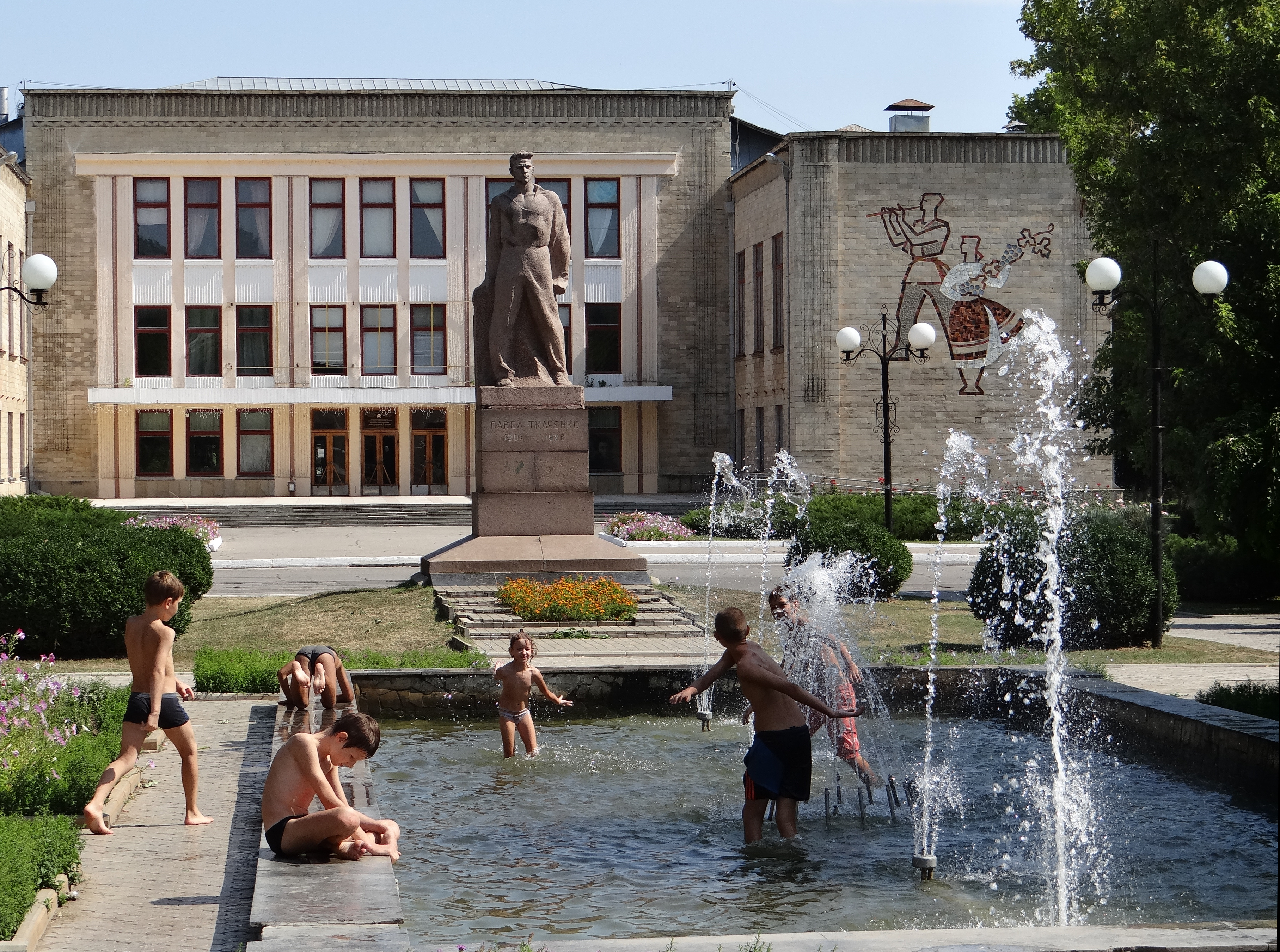 Kids in Fountain with Facade Backdrop - Bendery - Transnistria